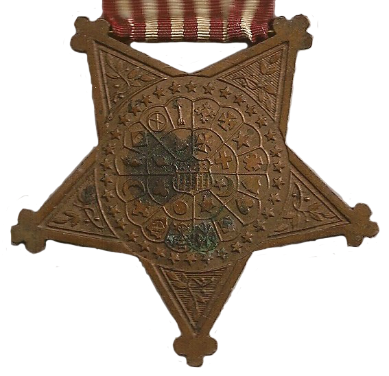 Todd Gallagher. Scanned badge which I personally own. Reverse of the Grand Army of the Republic Badge.